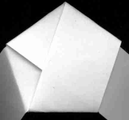 PaperstripKnot